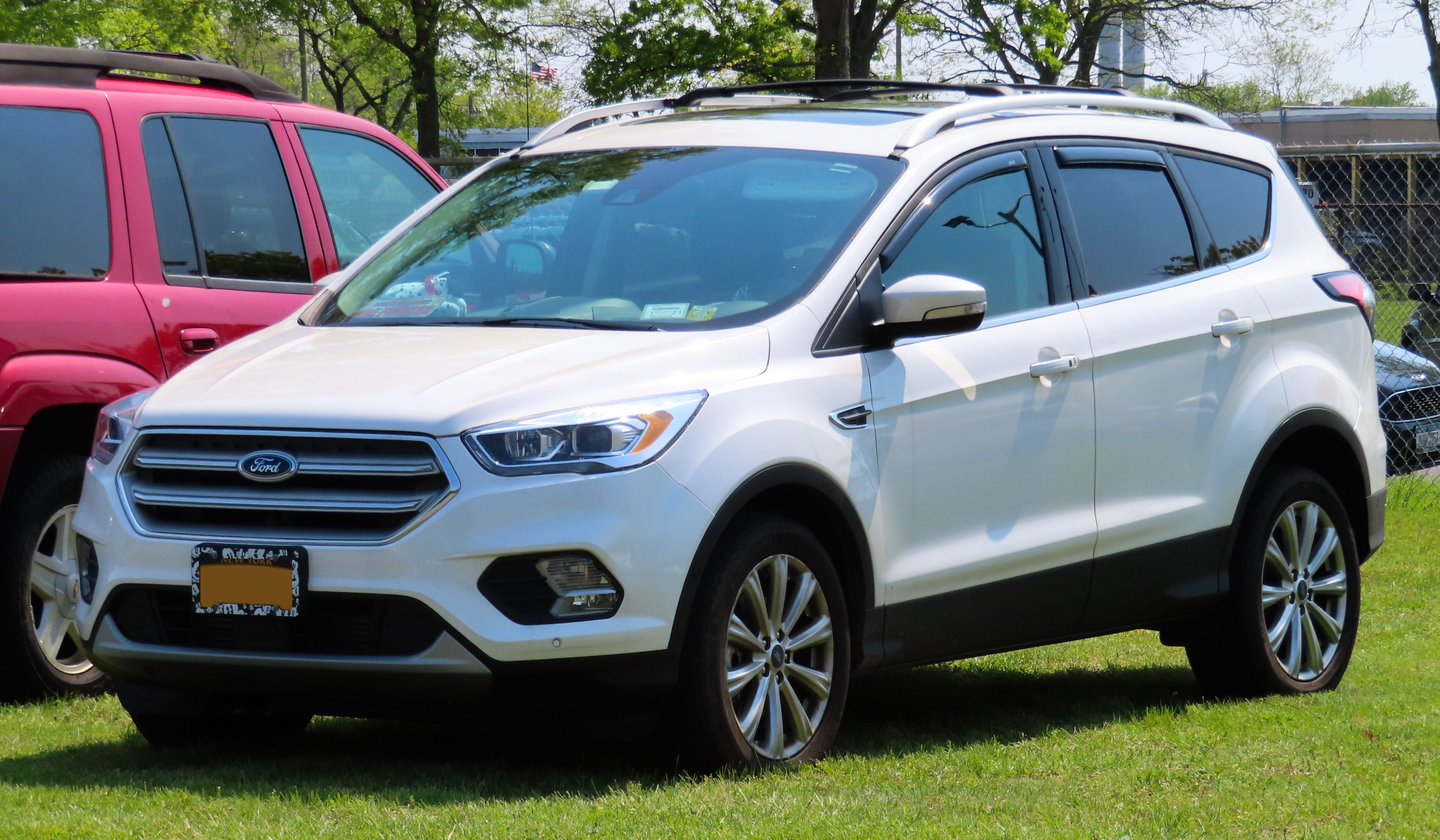 A 2018 Ford Escape Titanium photographed at Merrick, New York, USA